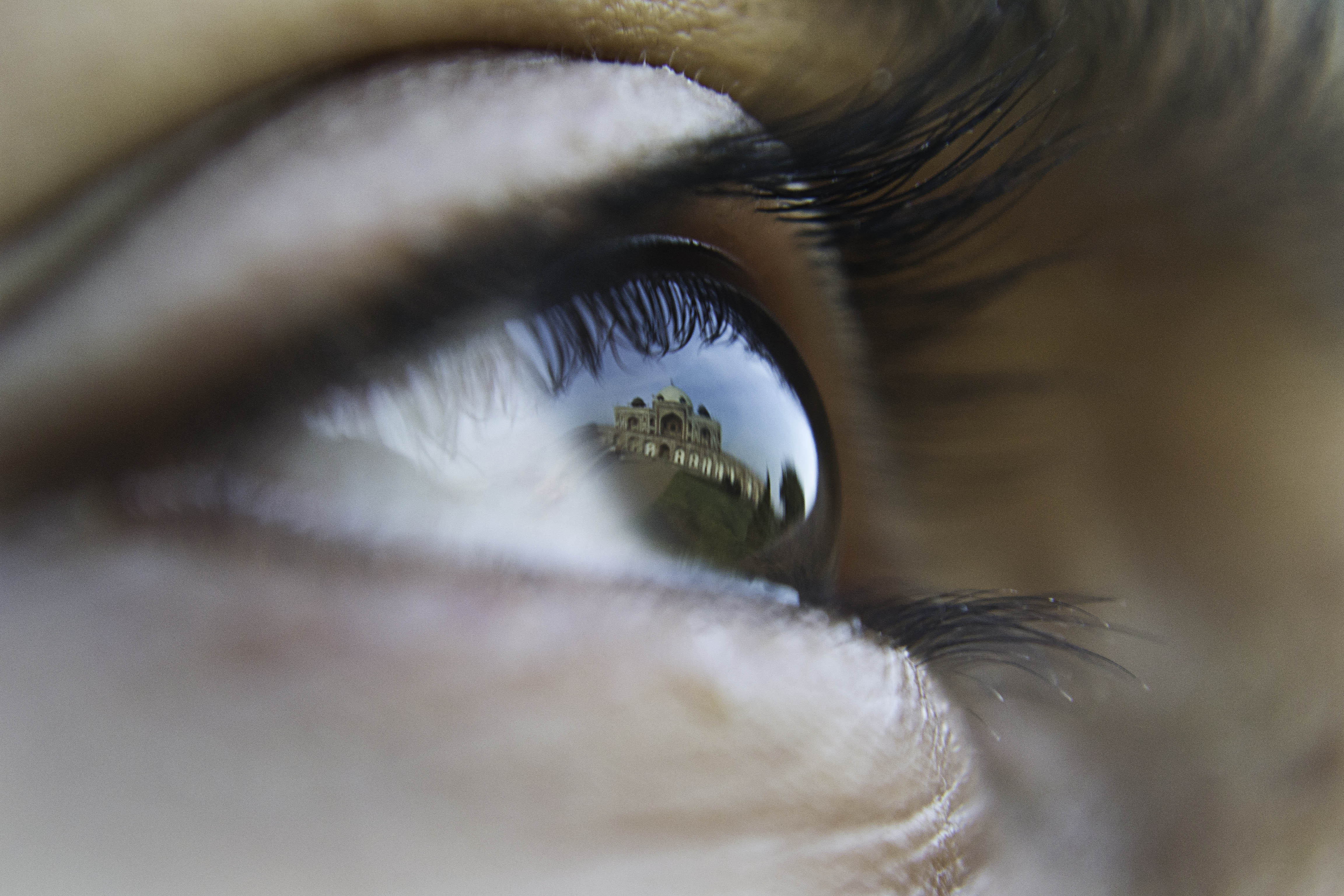 Humayun's Tomb is a complex of buildings of Mughal architecture located in Nizamuddin east, New Delhi.